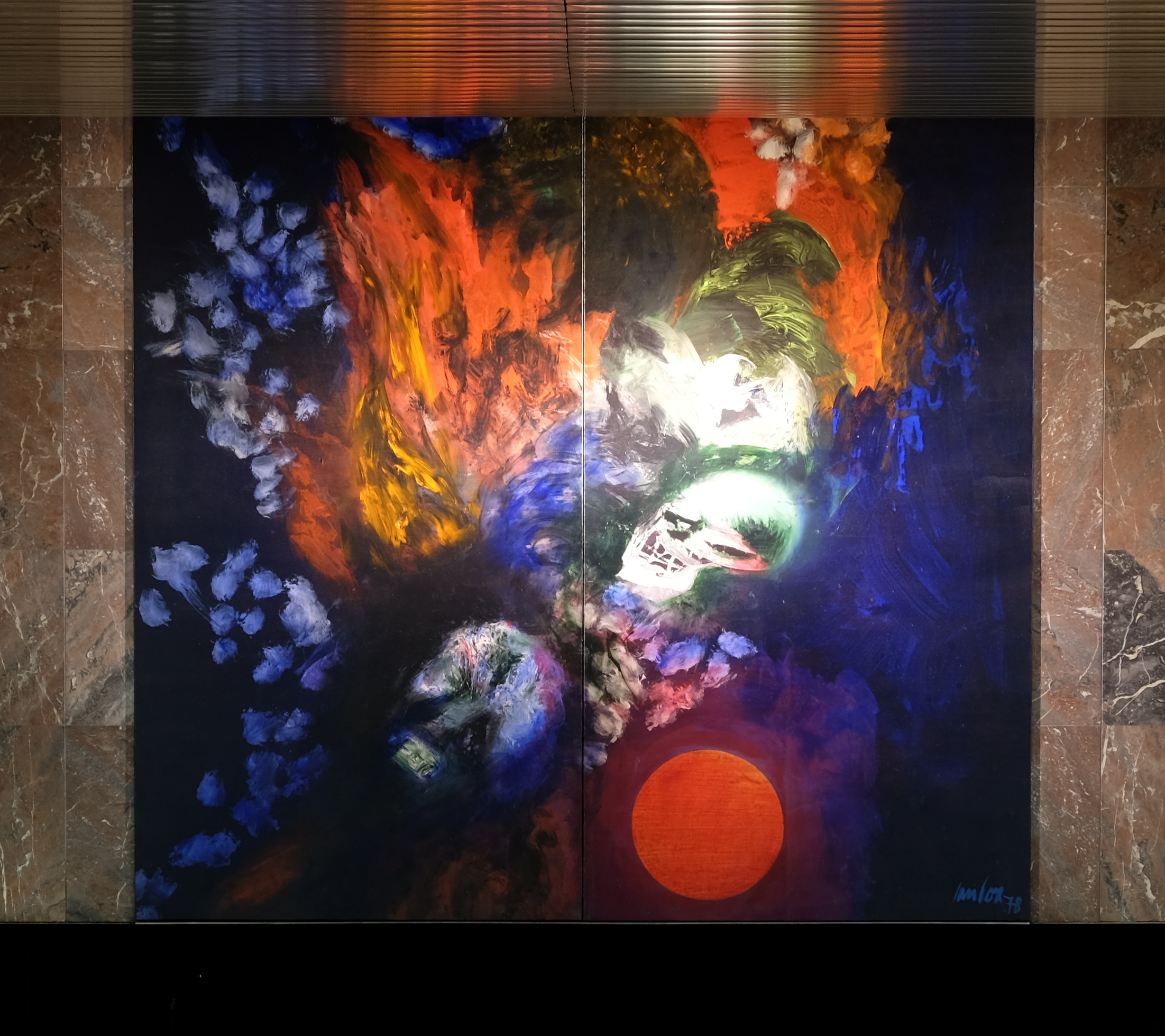 The fall of Troy by Jan Cox at Herrmann Debroux metro station in Auderghem, Belgium This artwork is exposed between the two platforms.